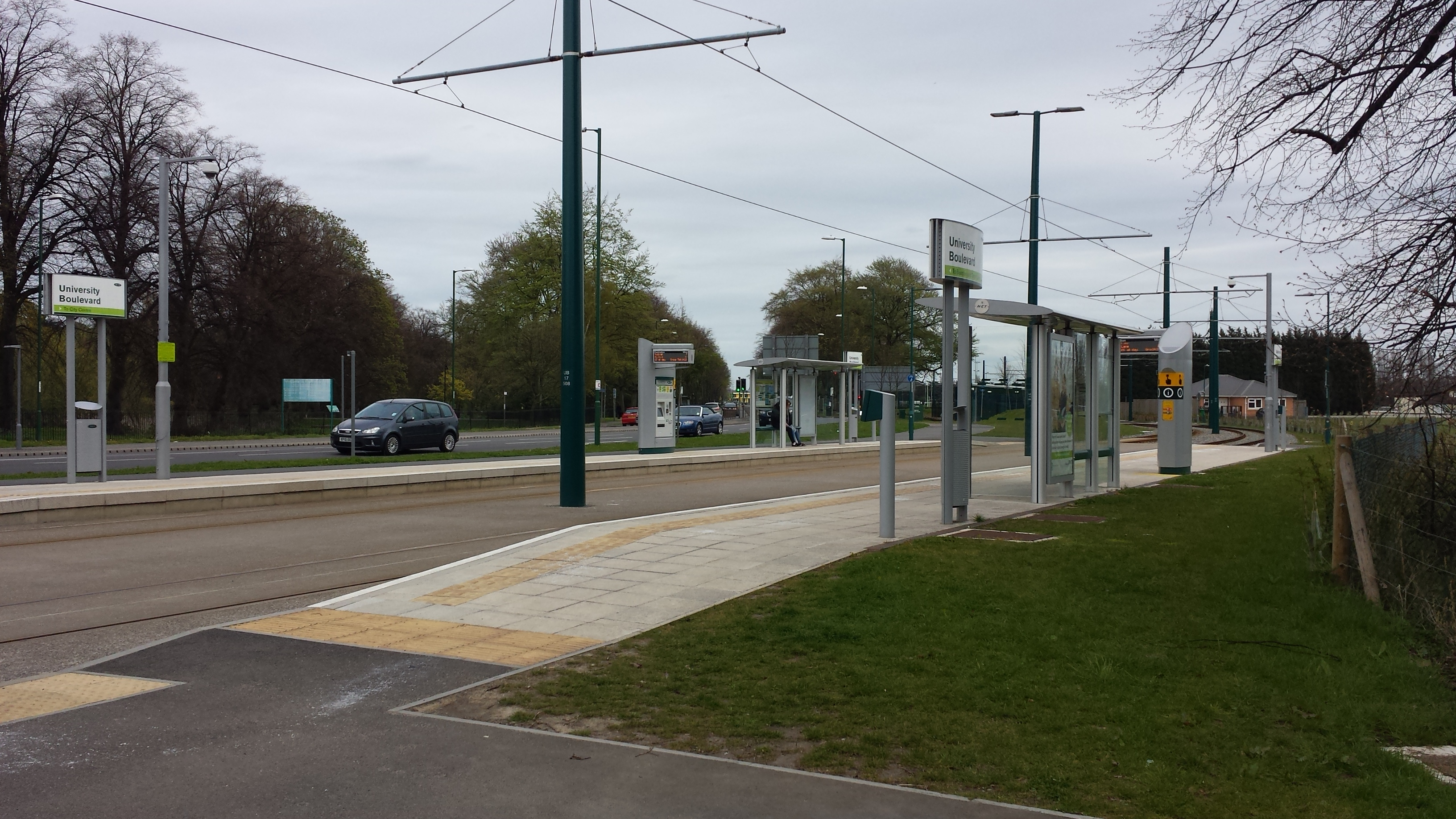 The University Boulevard tram stop viewed from the west